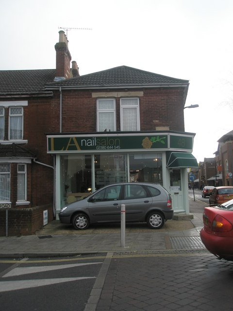 Nail salon at the junction of Factory and Desborough Roads